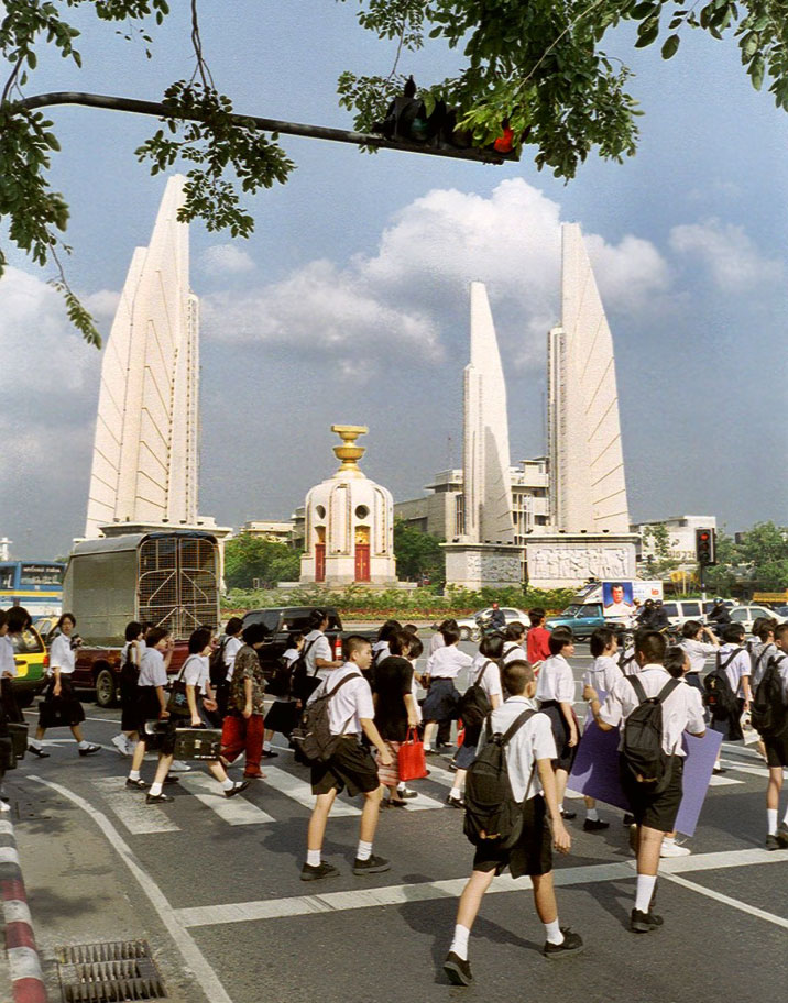 Democracy Monument, Bangkok, Thailand, May 2002